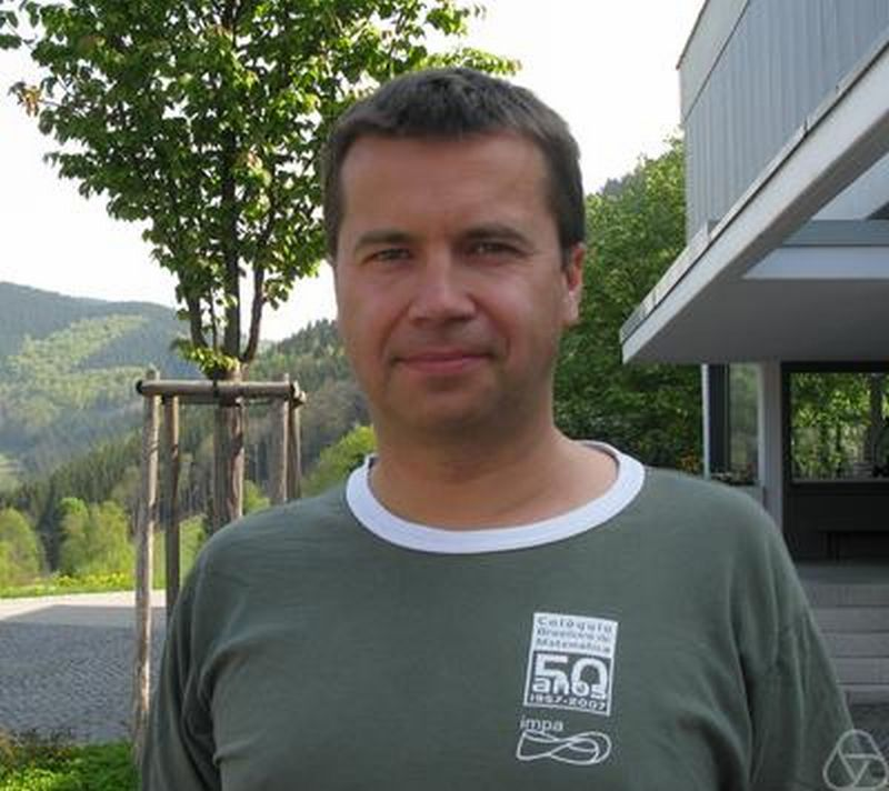 Grigory Mikhalkin, Oberwolfach 2011